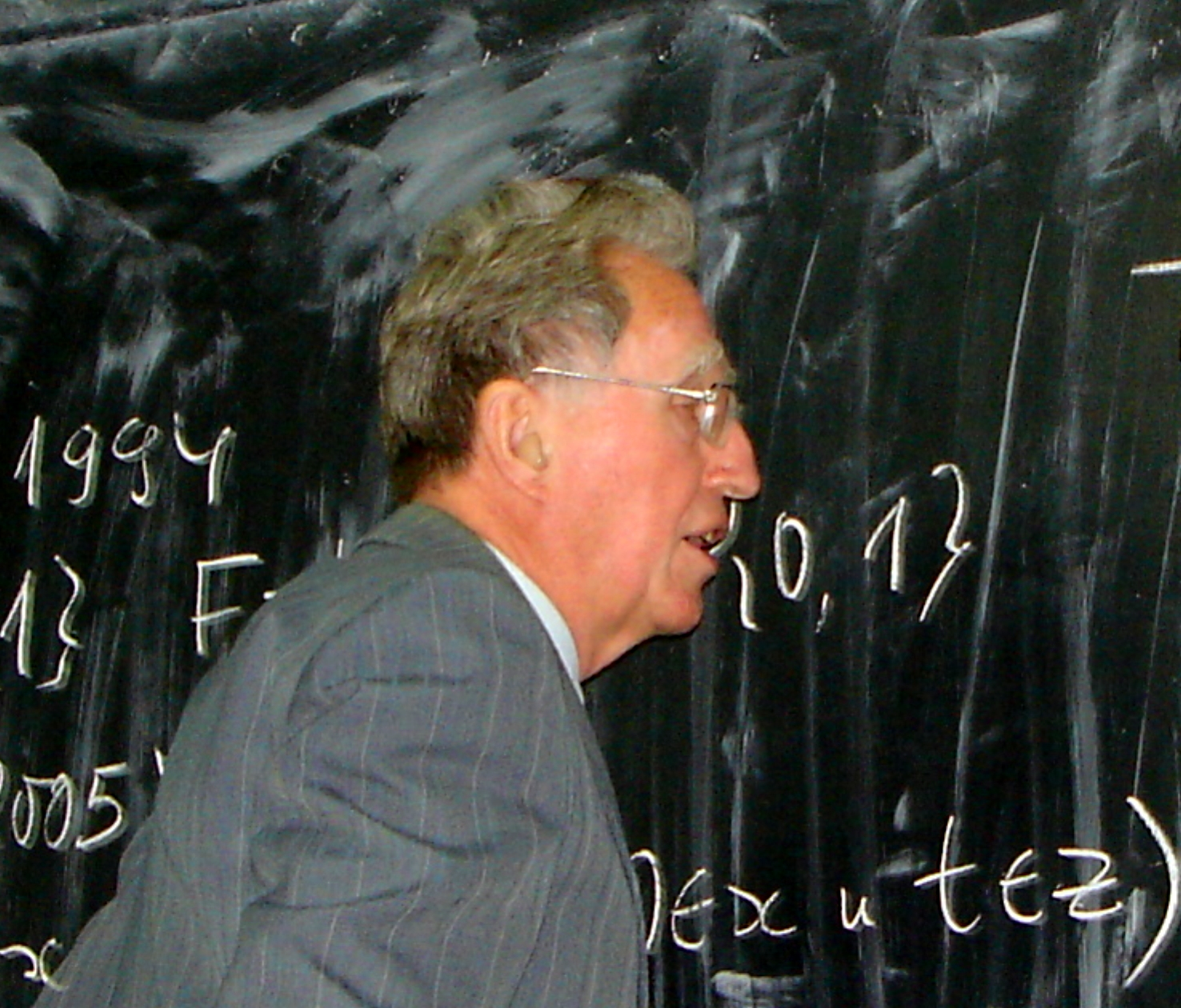 Prof. Dimiter Skordev, Department of Mathematical Logic and Applications, Sofia University